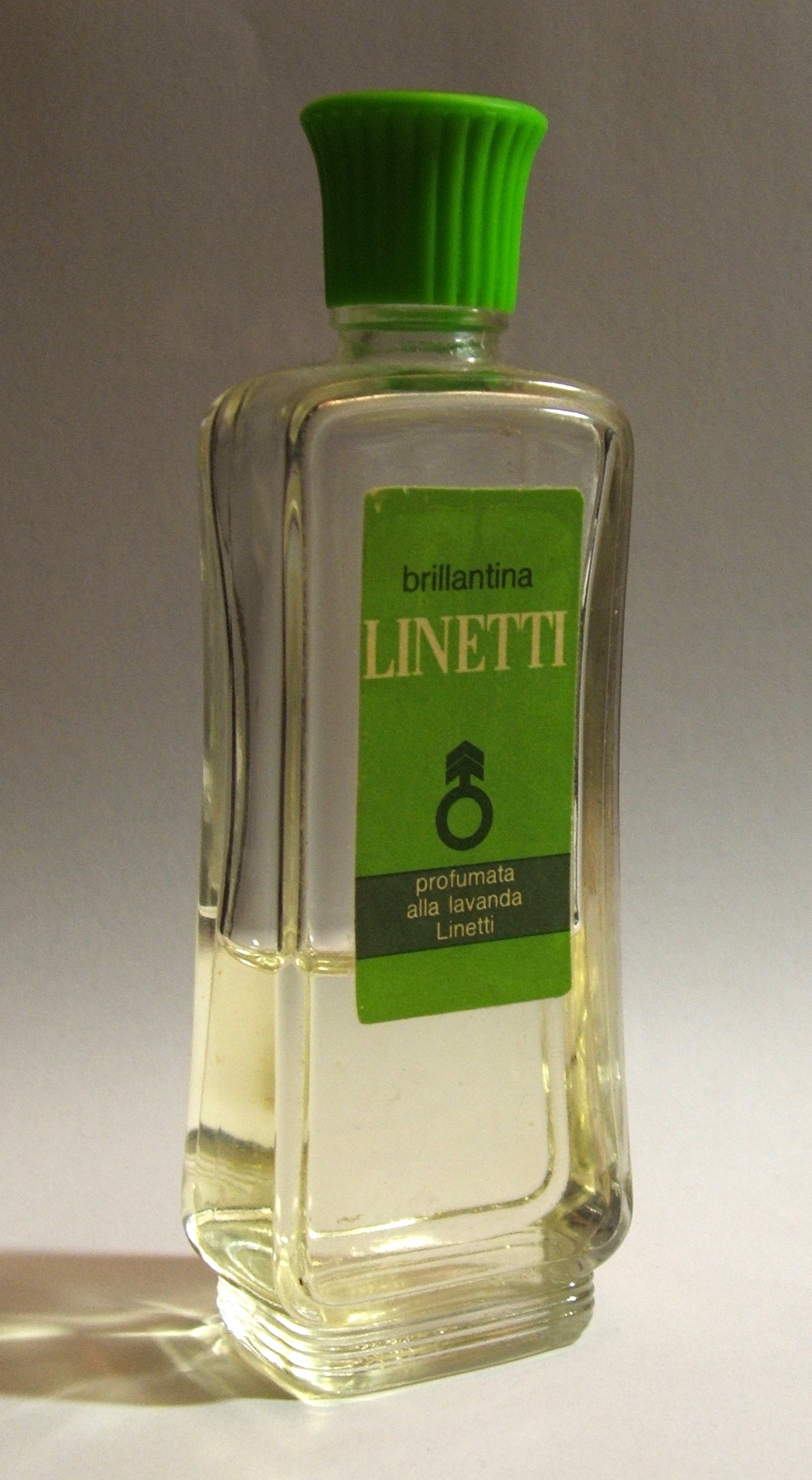 80's Linetti grease bottle.